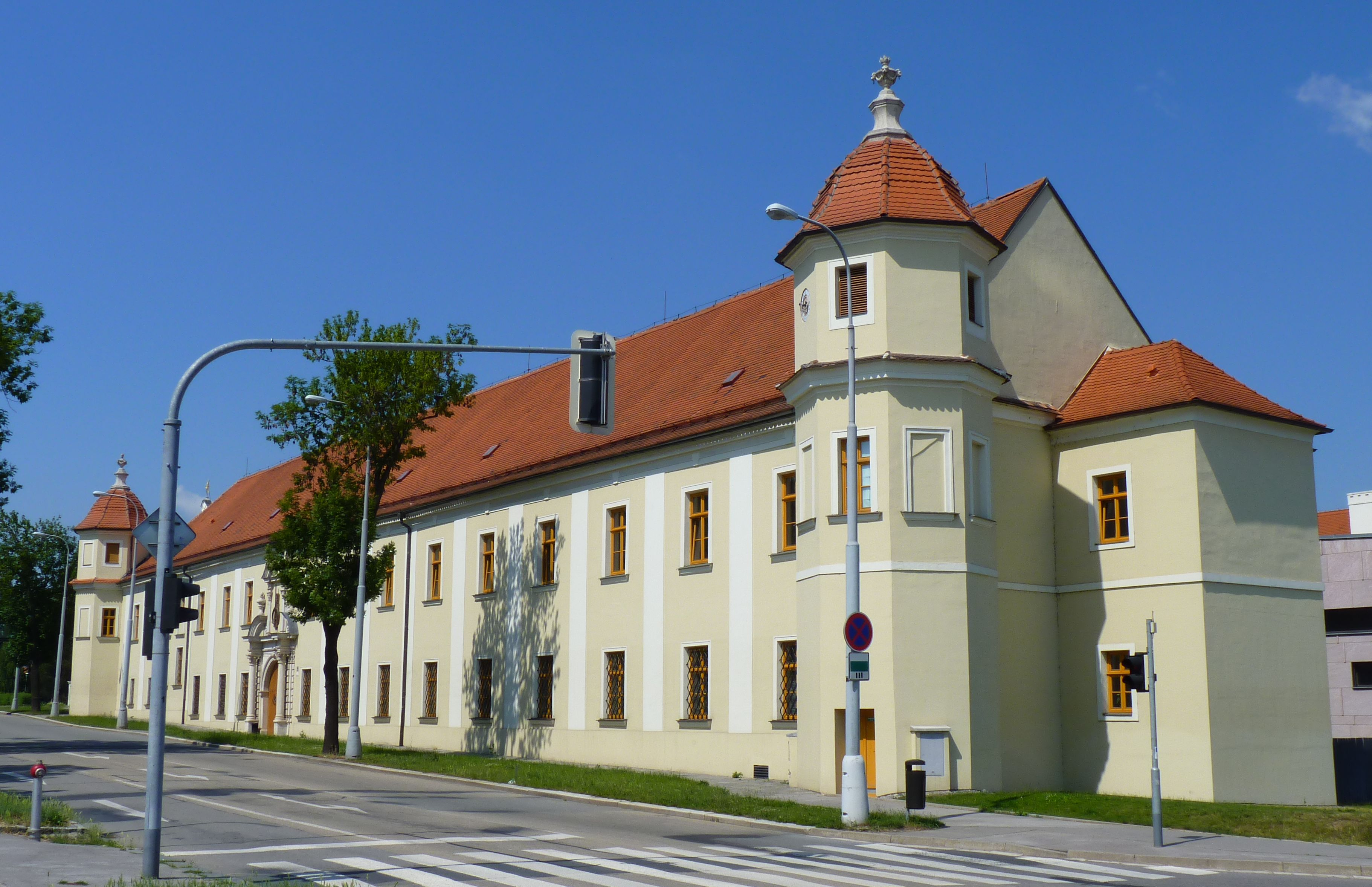 Former monastery. Brno-Královo Pole, South Moravian Region, Czech Republic